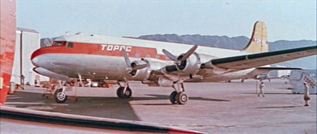 Screenshot of the DC-4 from the film The High and the Mighty. The aircraft was leased from Transocean Air Lines for the movie.